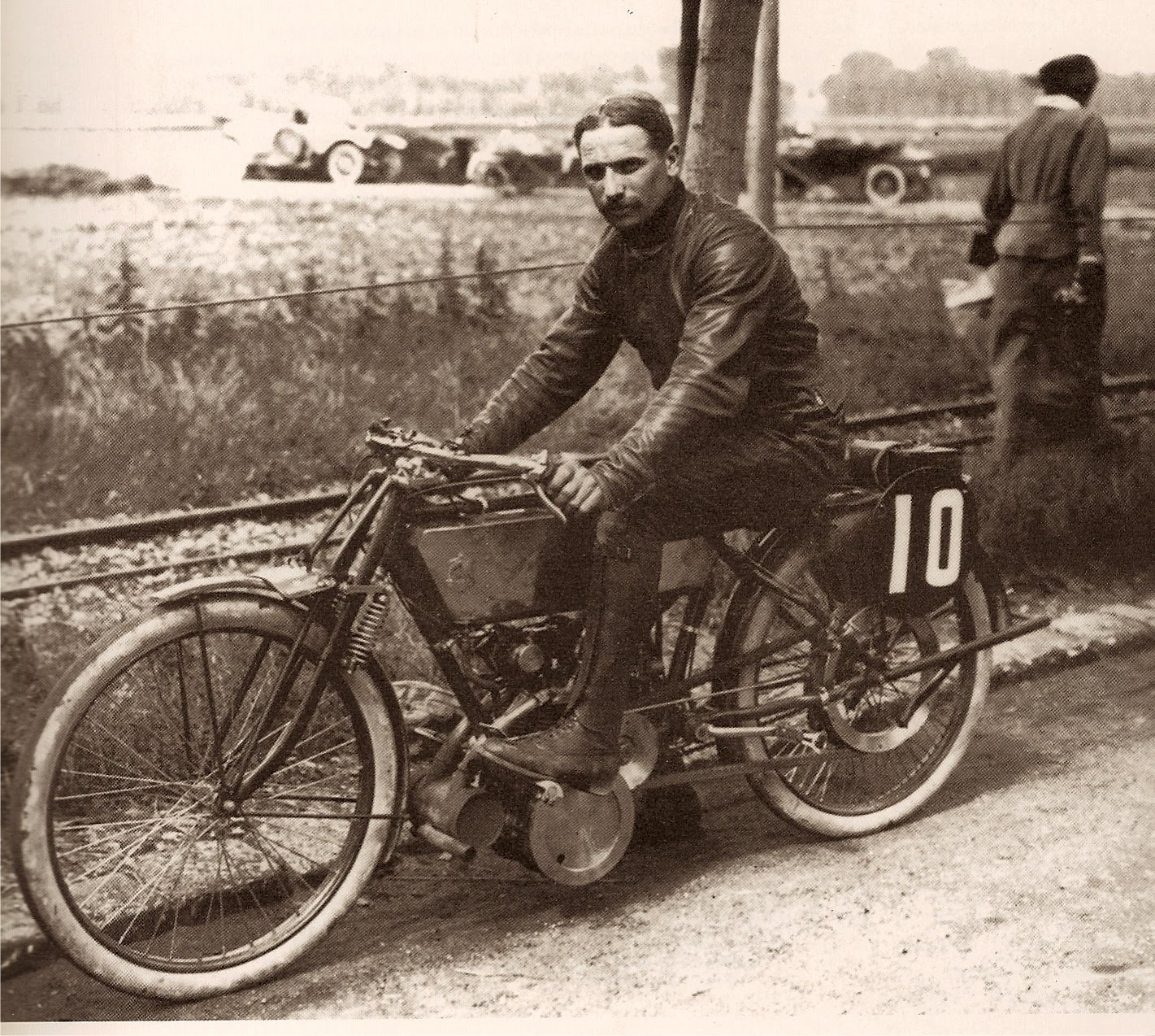 Peugeot dual overhead cam motorcycle c. 1913 or 1914. Peugeot race team rider Paul Pean shown astride.